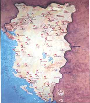 Committees of the League of Prizren within the proposed Great Albania.